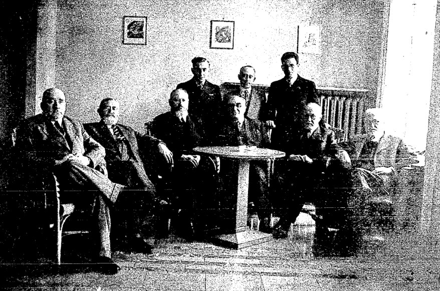 Jewish parlimentary club in Sejm 1938-1939